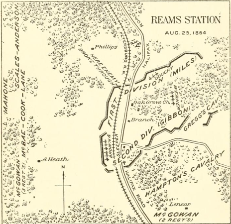 Map of the Second Battle of Ream's Station